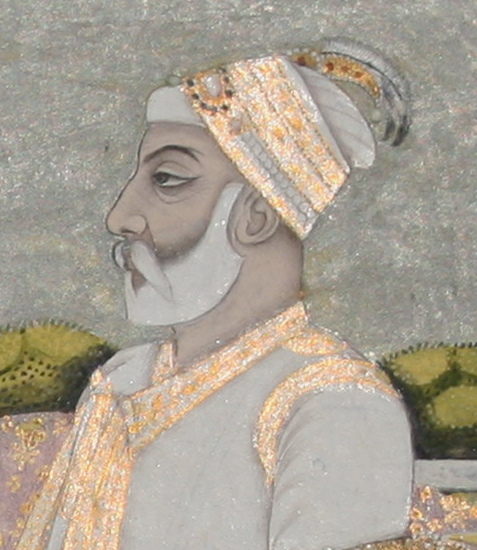 Nawab Alivardi Khan